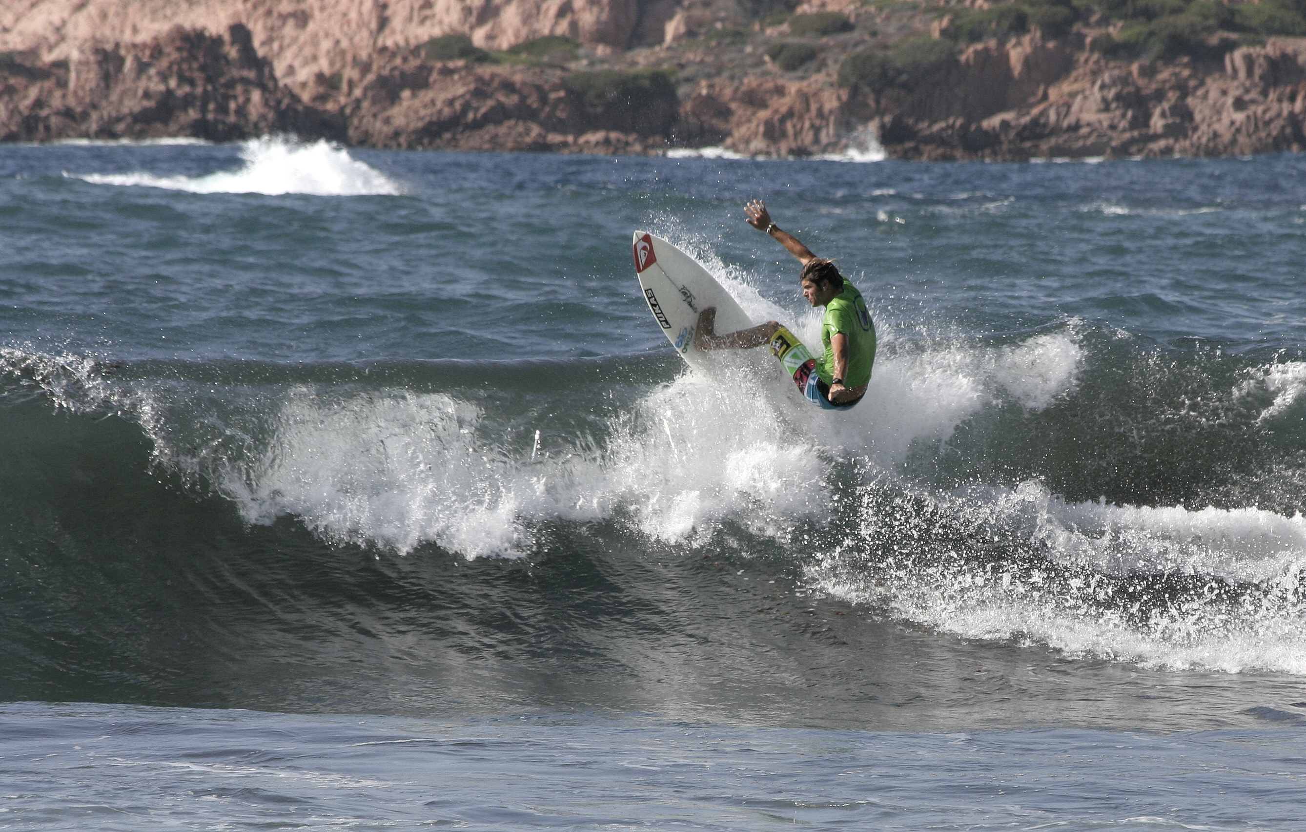 Italian surfer during a surf competition in Sardinia in Marinedda's beach, Isola Rossa. In Italy Sardinia is the region that have much surfing spot than the others